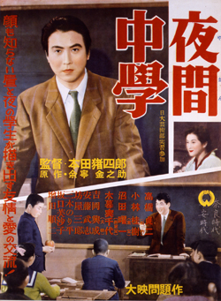 Japanese movie poster for 1956 Japanese film Night School (Yakan chugaku)